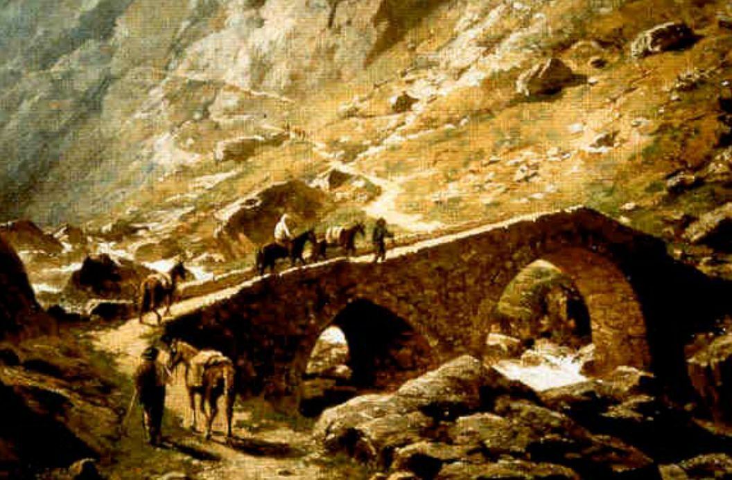 a painting of the Häderlisbrücke in Switzerland